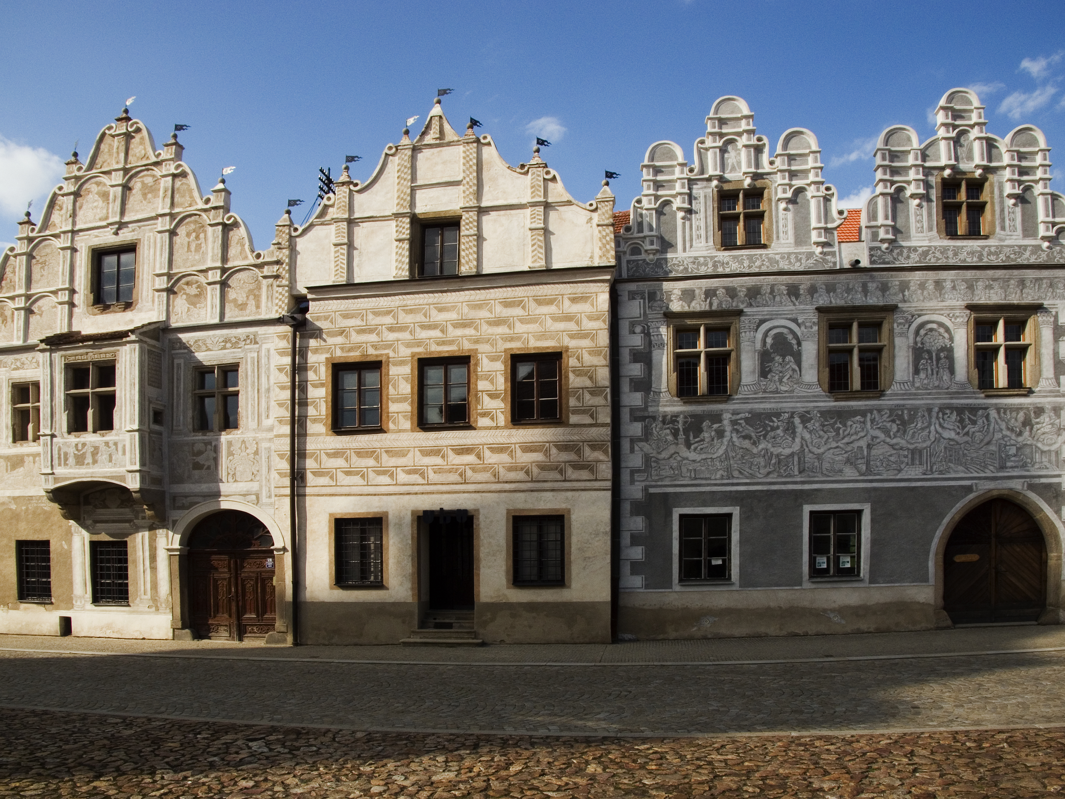 Historical houses in Slavonice, Czech Republic